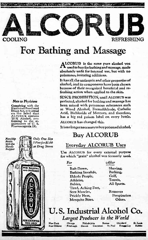 New York newspaper ad for Alcorub, pure alcohol for external use only.